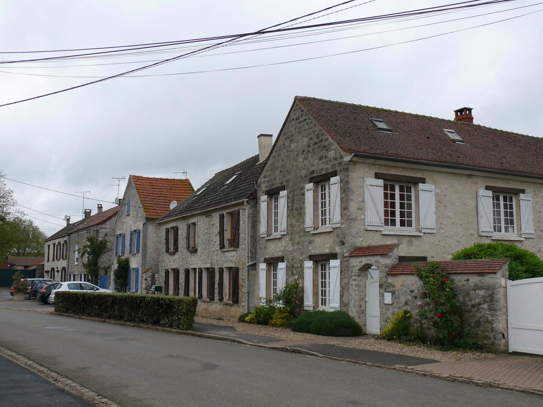 The village of Chèvreville (Oise, Picardie, France).